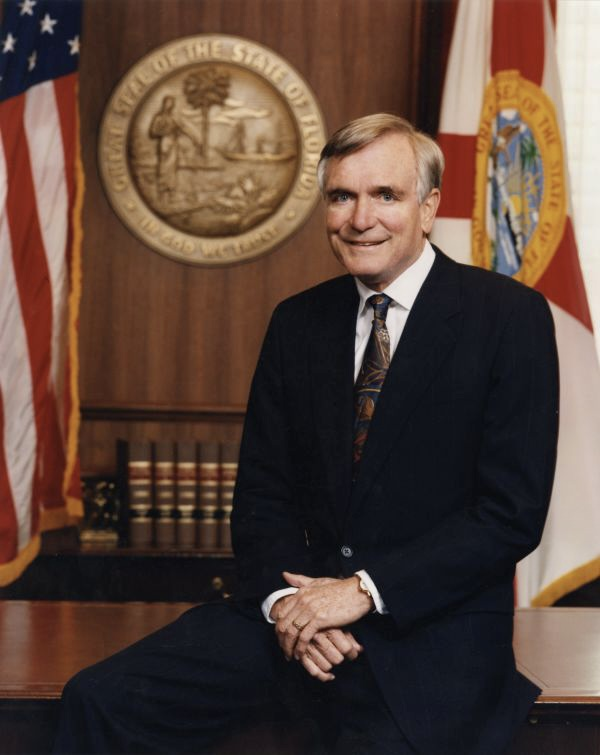 Governor Lawton Chiles, Florida